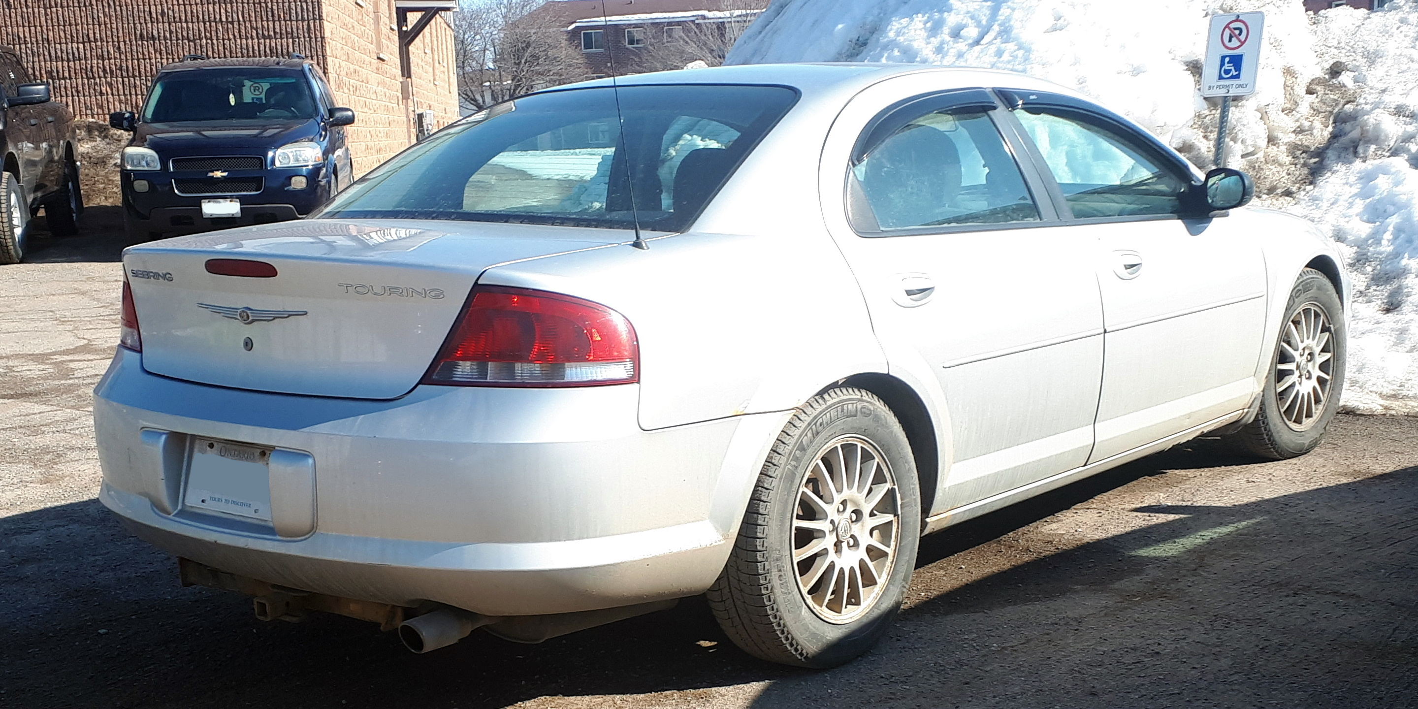 2004-2006 Chrysler Sebring Touring sedan photographed in Sault Ste. Marie, Ontario, Canada